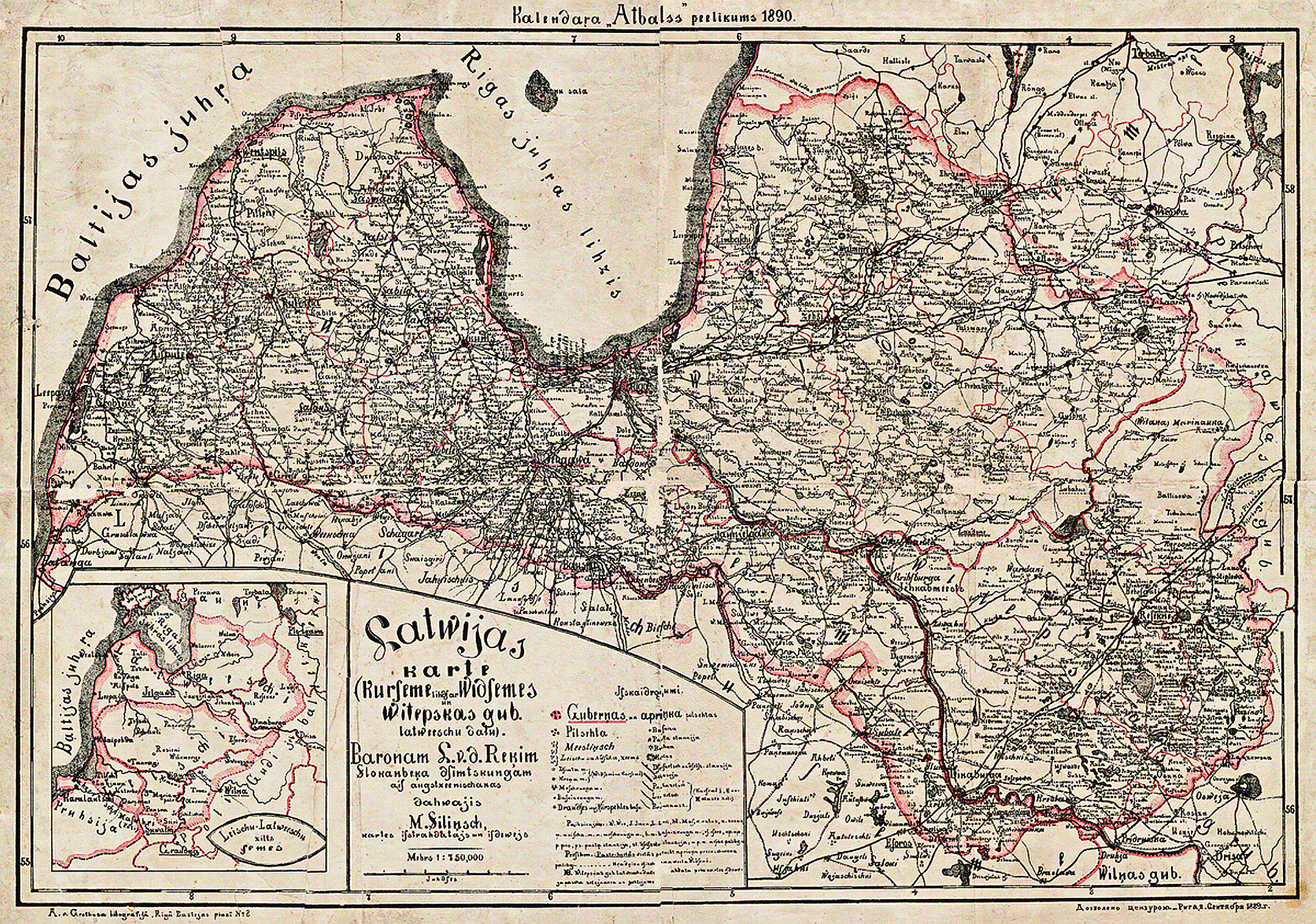 Publicate in 1889 on calender Atbalss